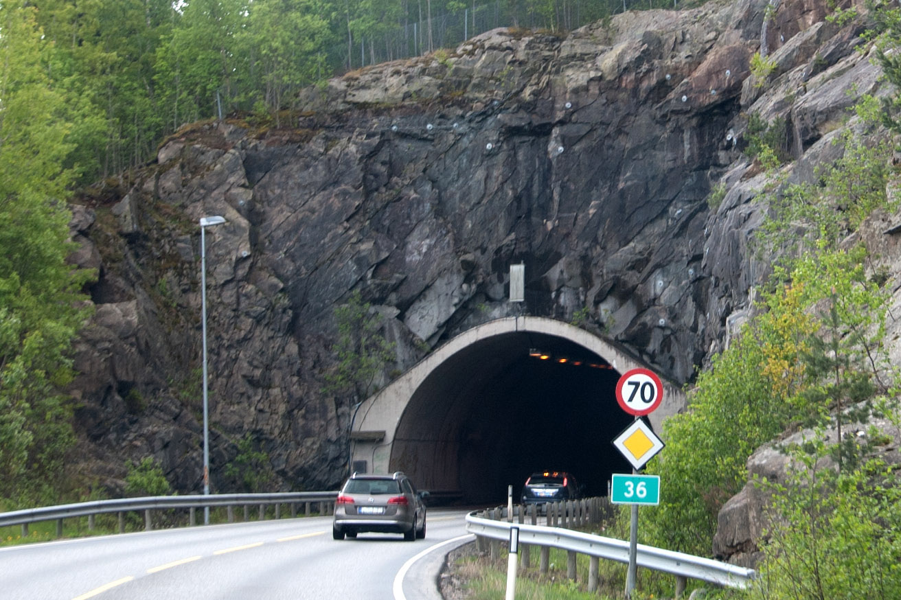 Slåttekåstunnelen, a road tunnel on national road 36 in Telemark, Norway